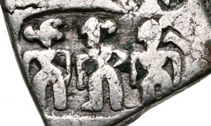 Mauryan punch-marked coin with three deities 4th-2nd century BCE. Described and illustrated in (1989). "Brahmanical Imagery in the Kuṣāṇa Art of Mathurā: Tradition and Innovations". East and West 39 (1/4): 116-117. ISSN 0012-8376.